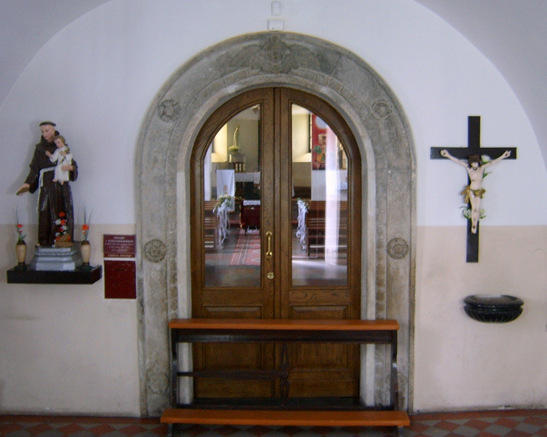 Saint Nicholas Church in Zamość